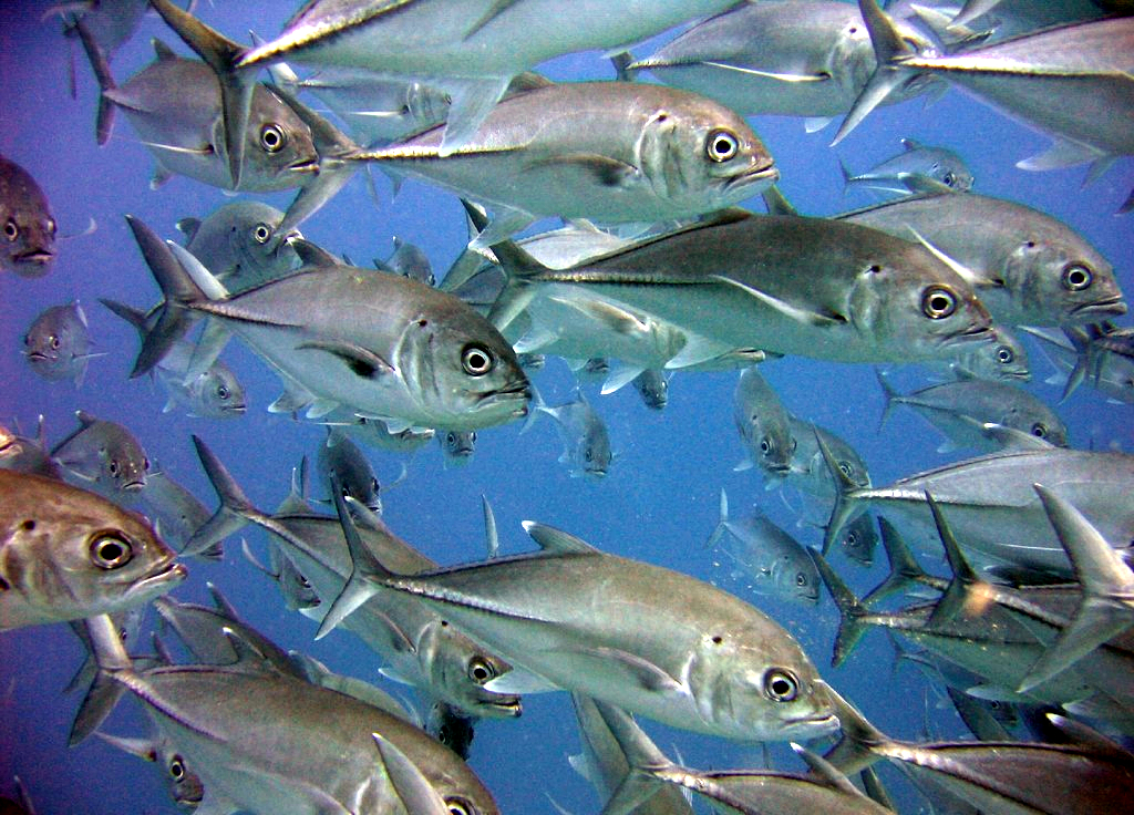 A large school of Bigeye Trevallies (Caranx sexfasciatus). Steve's Bommie, Ribbon Reefs, Great Barrier Reef